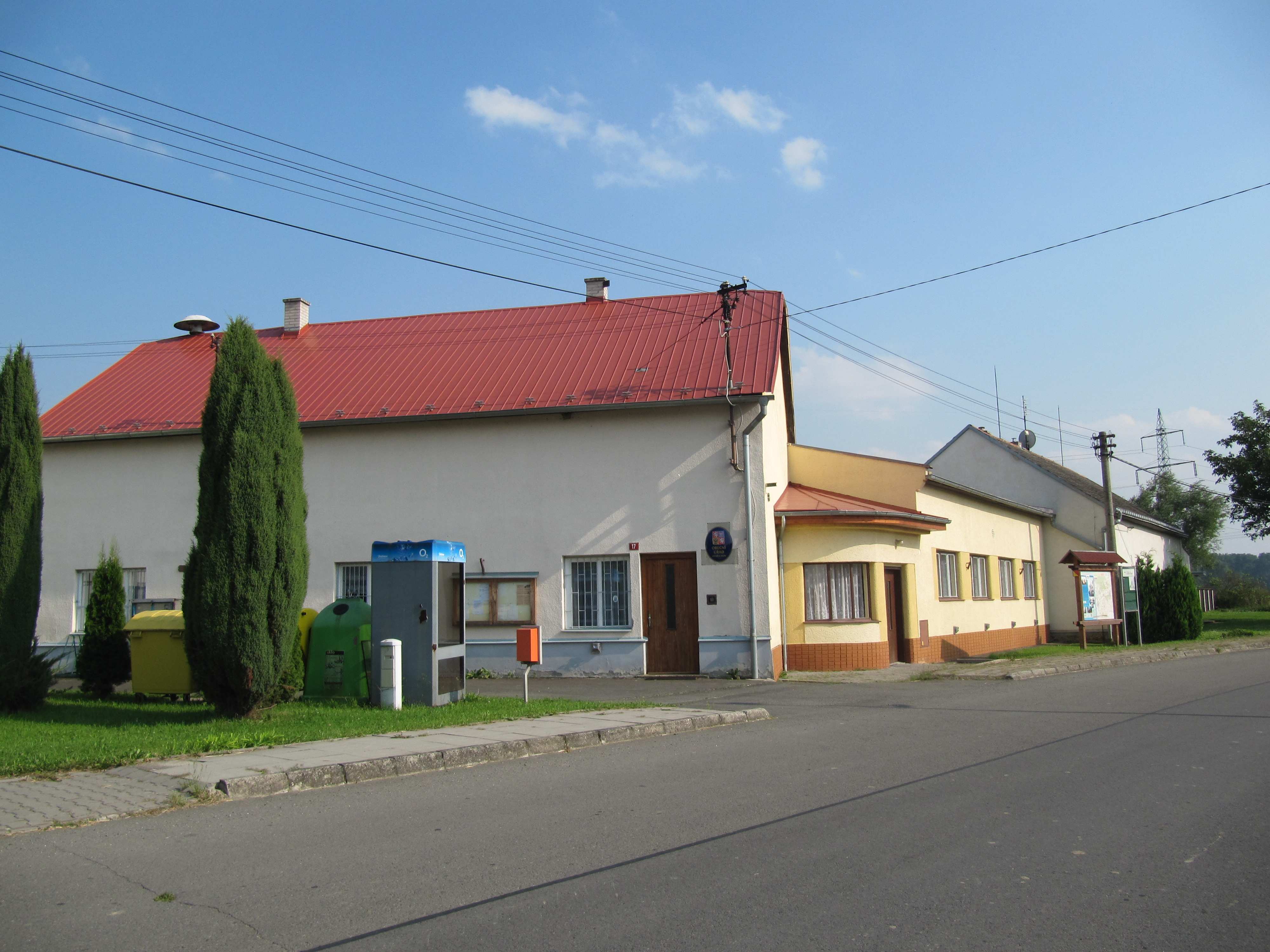 Oldřichov in Přerov District, Czech Republic. Municipal office. This photograph was taken within the scope of the third year of the 'Czech Municipalities Photographs' grant.